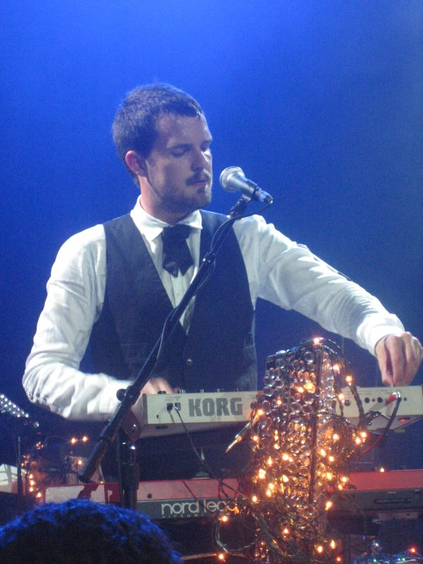 Brandon Flowers on keys in the Empire Ballroom, Las Vegas, NV, on August 25, 2006